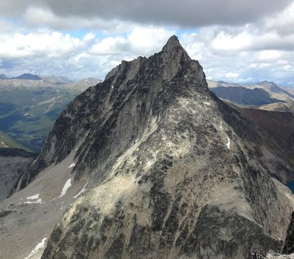 Brenta Spire, Bugaboos, Purcell Range, British Colombia, Canada